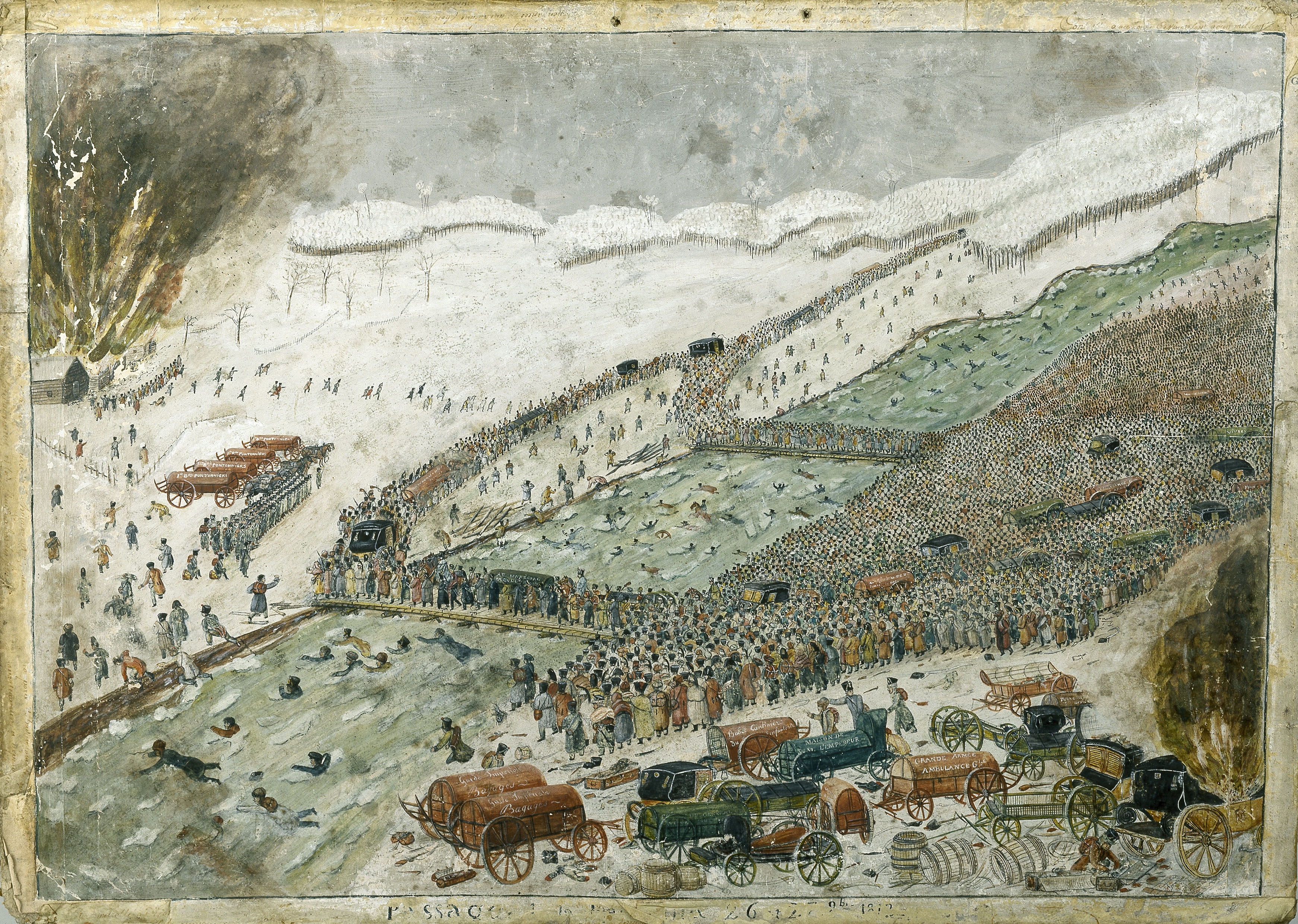 Battle of Berezina (water colour painting of 1812 by the timewitness Fournier)